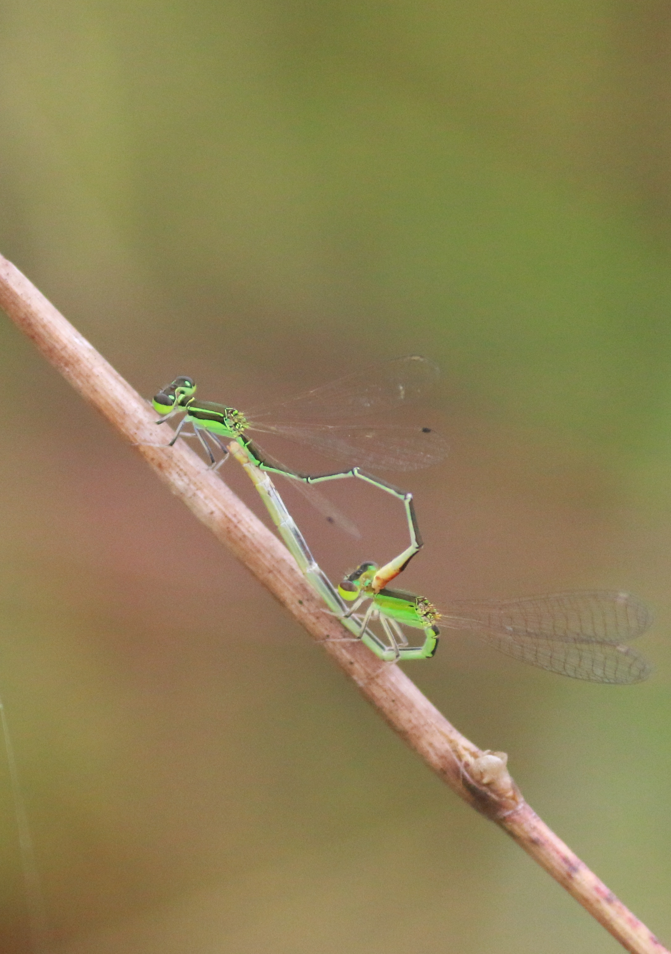 Agriocnemis pygmaea male and female